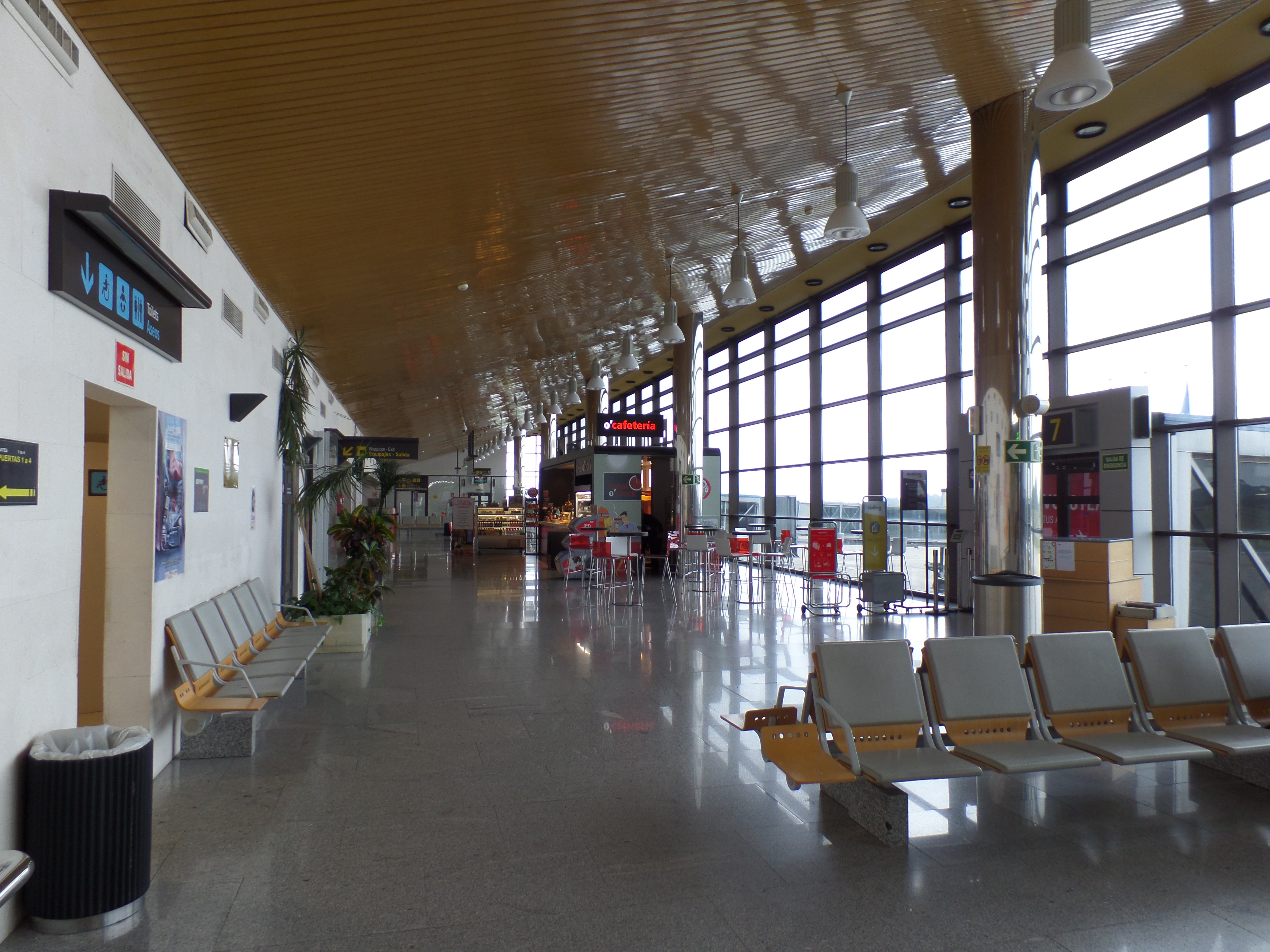 The terminal of Asturias Airport on 10 June, 2015.